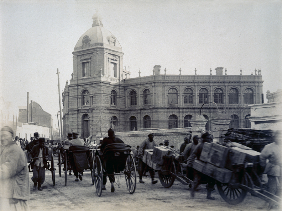 Description: View of traffic outside the Temperance Hall in Tianjin (Tientsin). Western troops were billeted in the hall during the Boxer Rising before the march on Beijing. Date: c.1900 Our Catalogue Reference: WO 28/302 f.29 This image is from the collections of The National Archives. Feel free to share it within the spirit of the Commons. For high quality reproductions of any item from our collection please contact our image library .